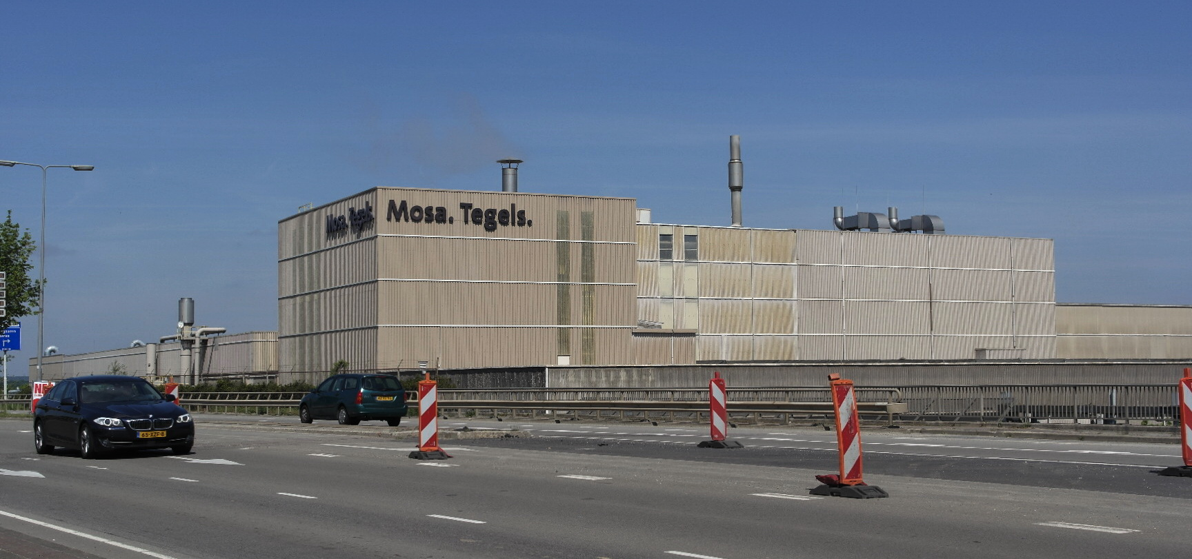 Maastricht-Limmel, the Netherlands, View of the Limmel plant of MOSA tiles along Viaductweg.